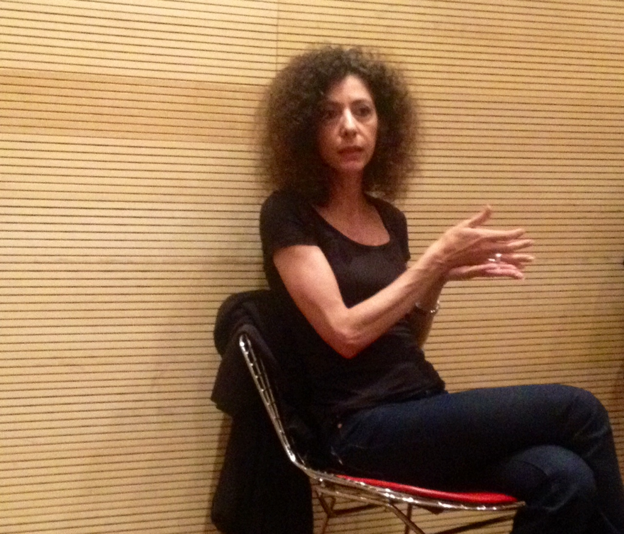 Argentine journalist Leila Guerriero.